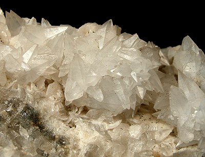 Alstonite, Witherite Locality: Brownley Hill Mine (Bloomsberry Horse Level), Nenthead, Alston Moor District, North Pennines, North and Western Region (Cumberland), Cumbria, England, UK (Locality at ) Size: small cabinet, 9.7 x 4.1 x 3.7 cm Alstonite with Witherite This rich specimen dates back to , I would expect, the heyday here in the mid-1800s. It is covered by very sharp, alstonites to 6mm. Atop is a 2-cm cluster of witherite, as well. I think the orange dot atop is the remnant of a very old glue label. In any case, its surprisingly an attractive specimen, although there is some value to the even more attractively prepared, and exhaustively descriptive, old labels!